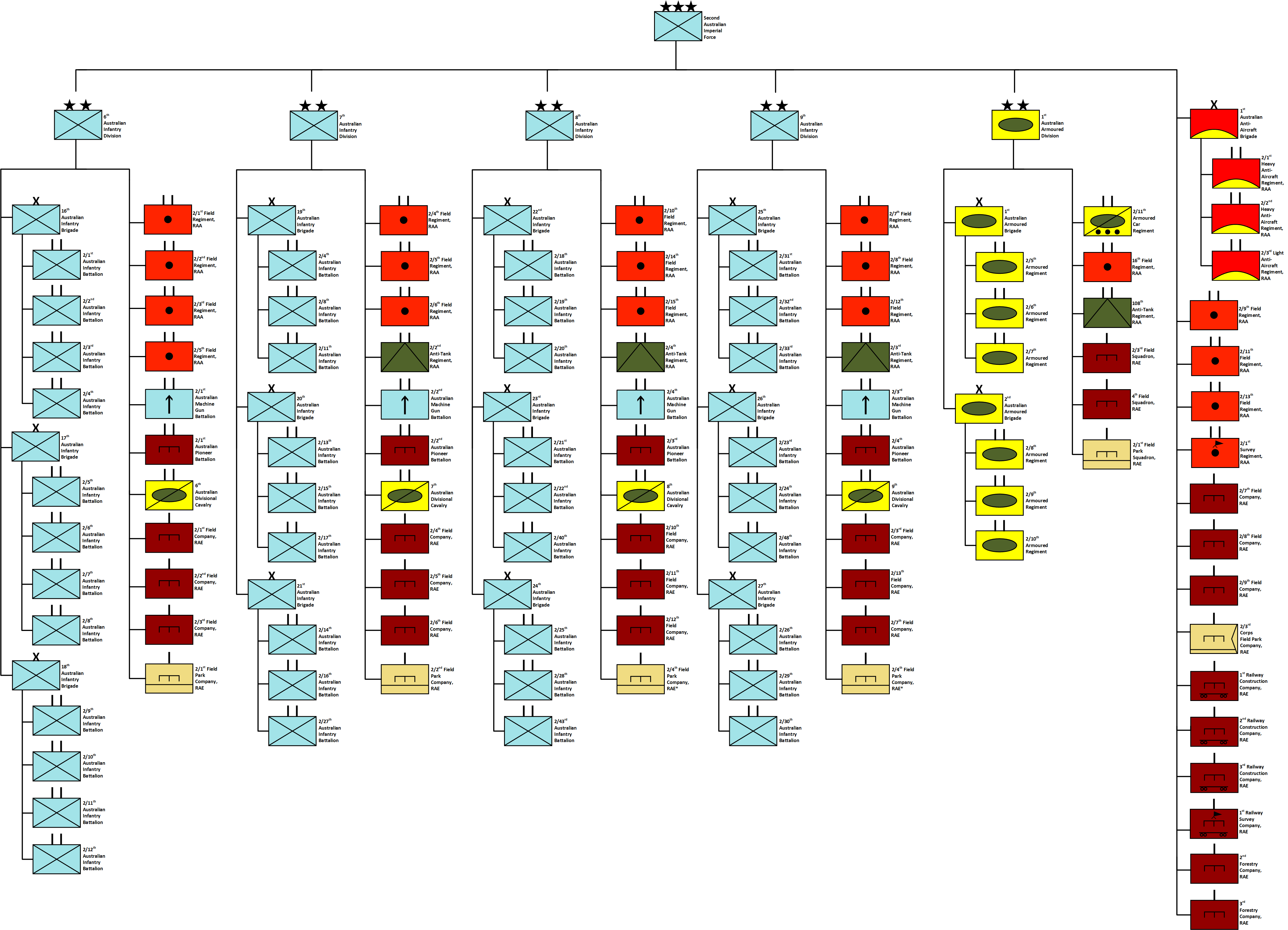 Organization of the Second Australian Imperial Force at the start of World War 2